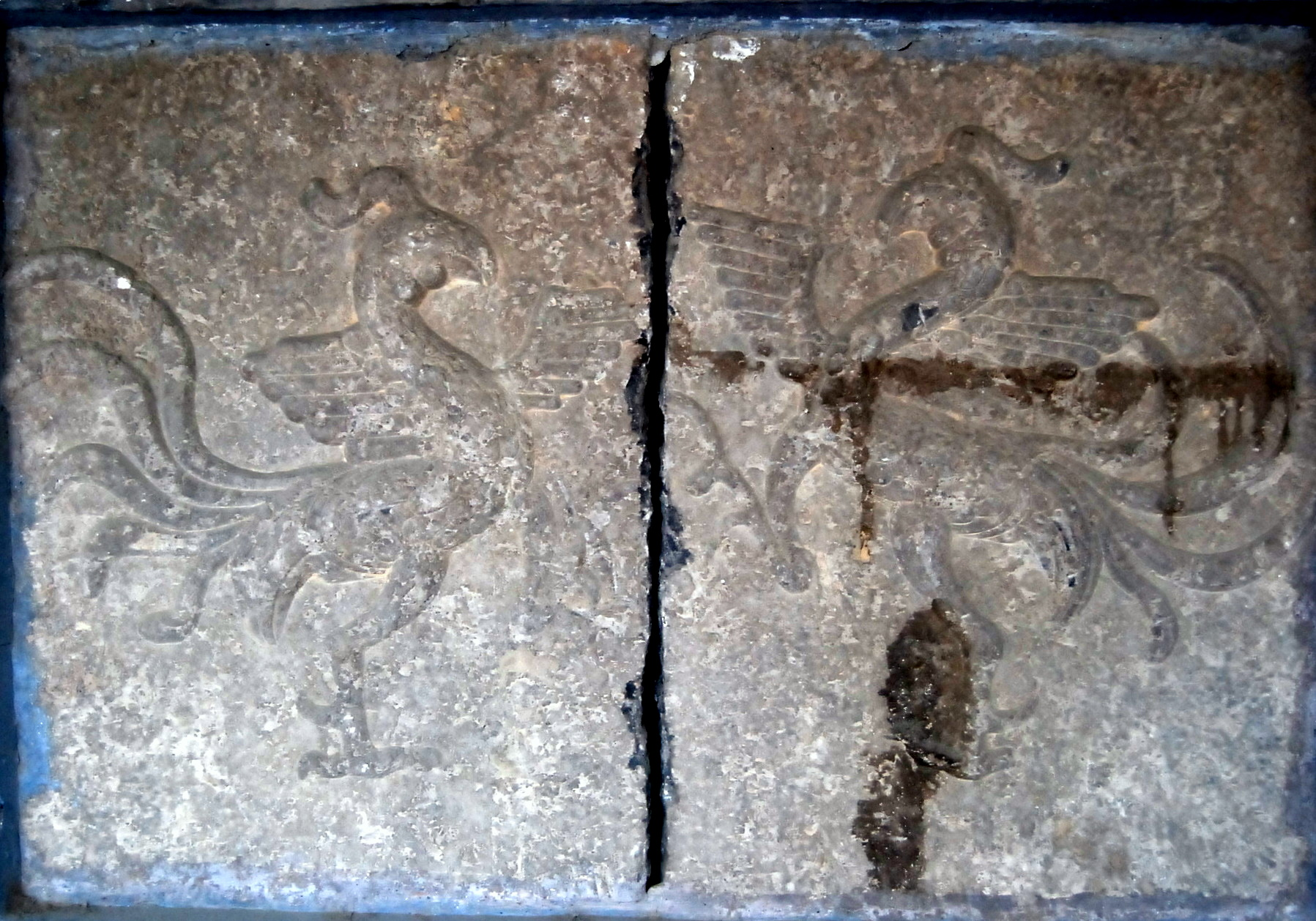 Artist Unknown Description 浮雕朱雀，魏晋 Current locationBeijing Rock Carving Art Museum, China Source/Photographerself photo 浮雕朱雀，魏晋